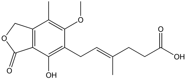 chemical structure od mycophenolic acid